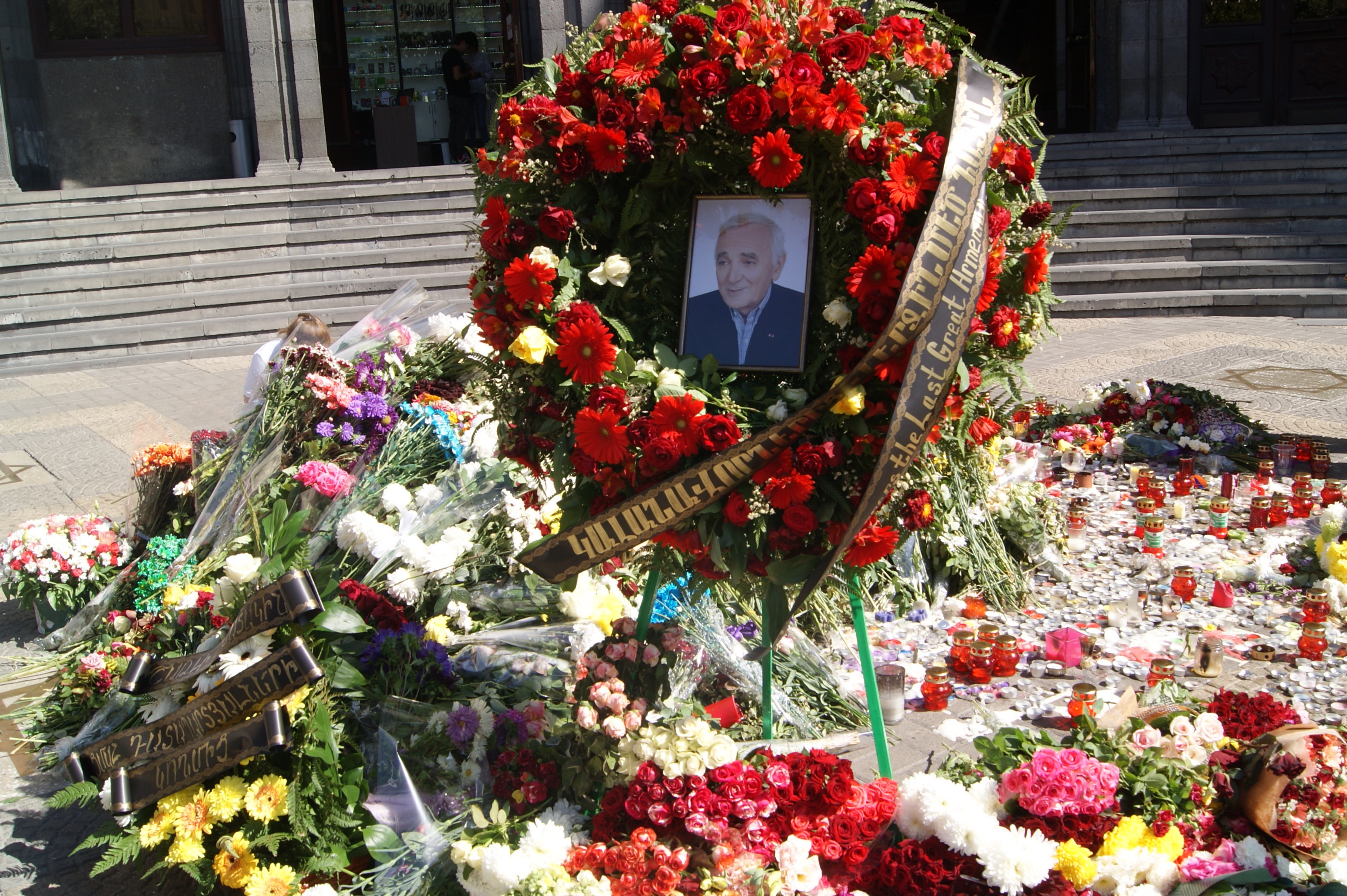 In the memory of Aznavour, Aznavour square